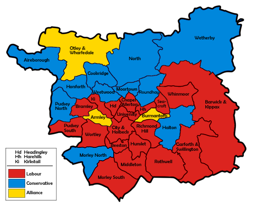 Ward map of Leeds City Council with political colouring.